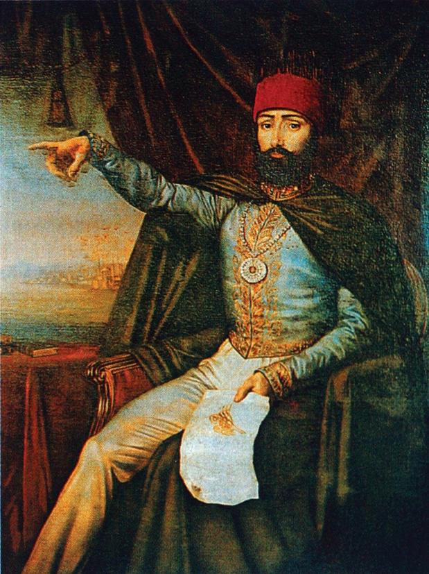 Same picture,more details,right colours